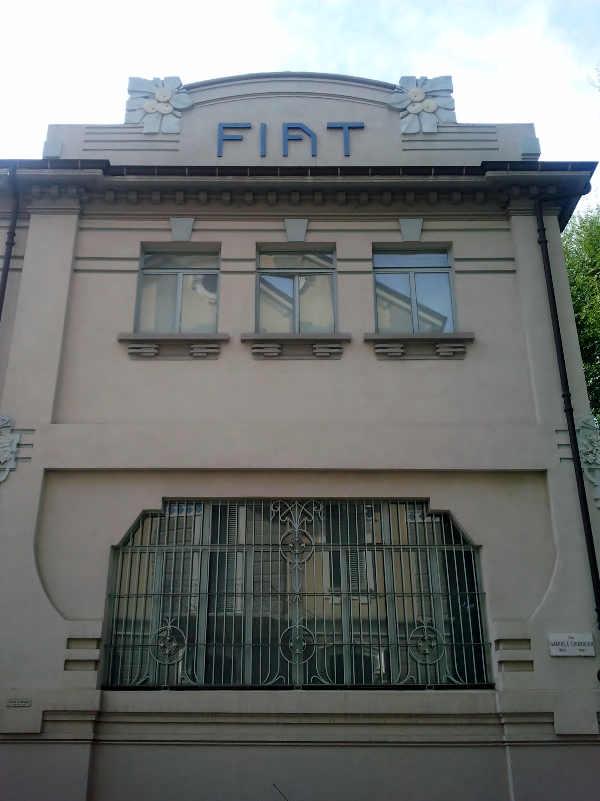 Centro Storico Fiat. Fiat Corso Dante Plant. Torino. Italy